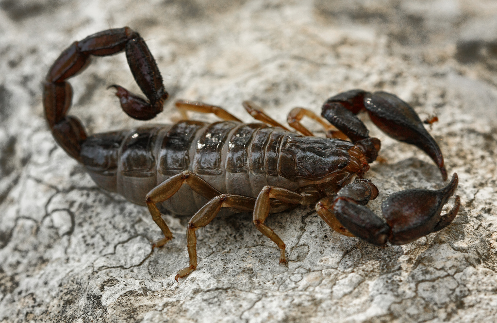 Nebo hierichonticus